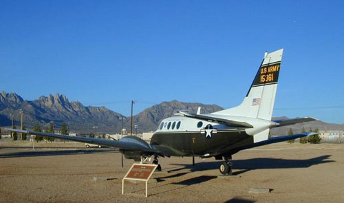 A Beechcraft VC-6A aircraft (s/n 66-15361) at the White Sands Missile Range Museum, the military version of the Beechcraft King Air B90. The aircraft was used extensively transporting Dr. Wernher Von Braun between White Sands Missile Range and Redstone.